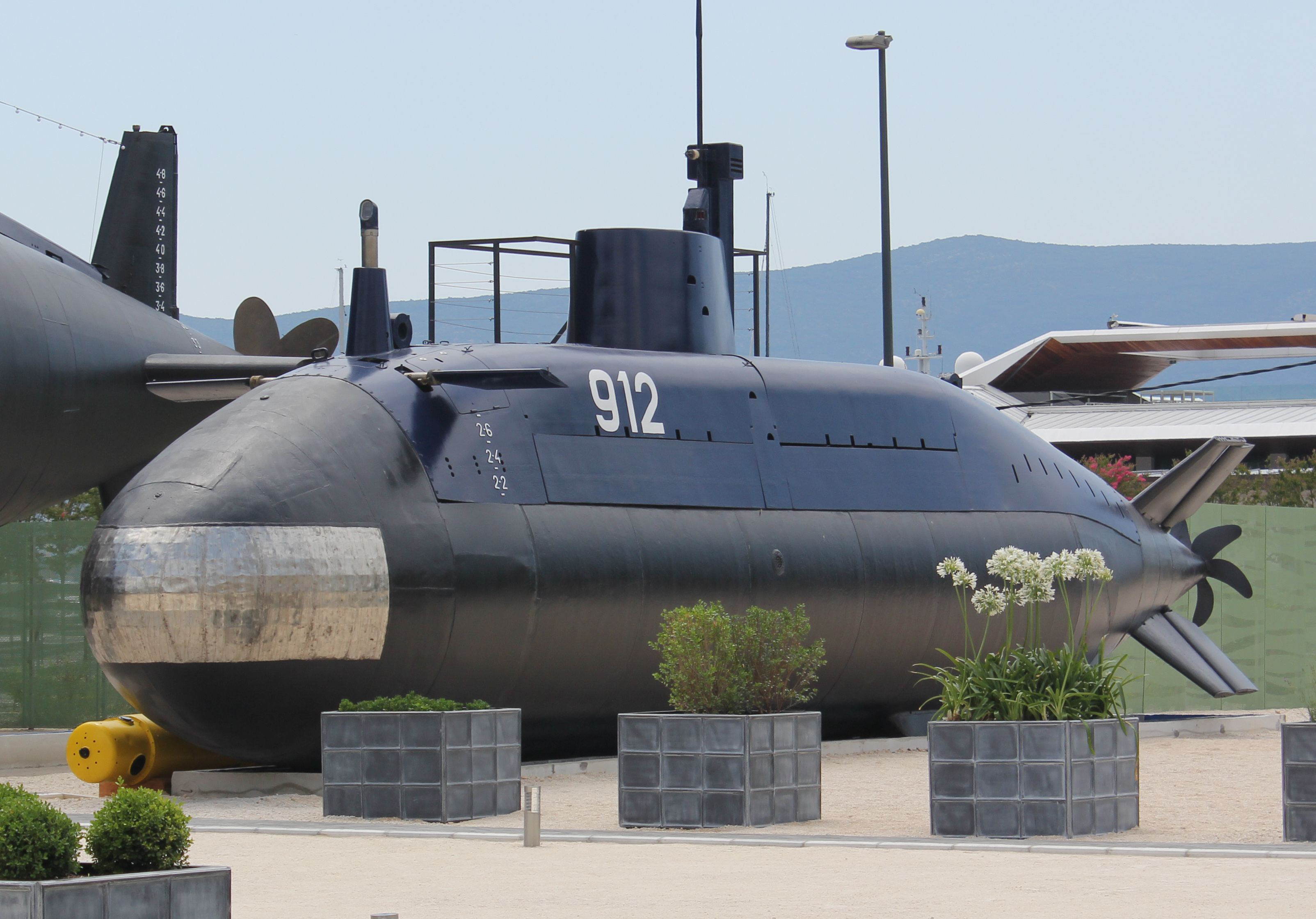 Una (P-912) submarine at Naval Heritage Collection, Tivat